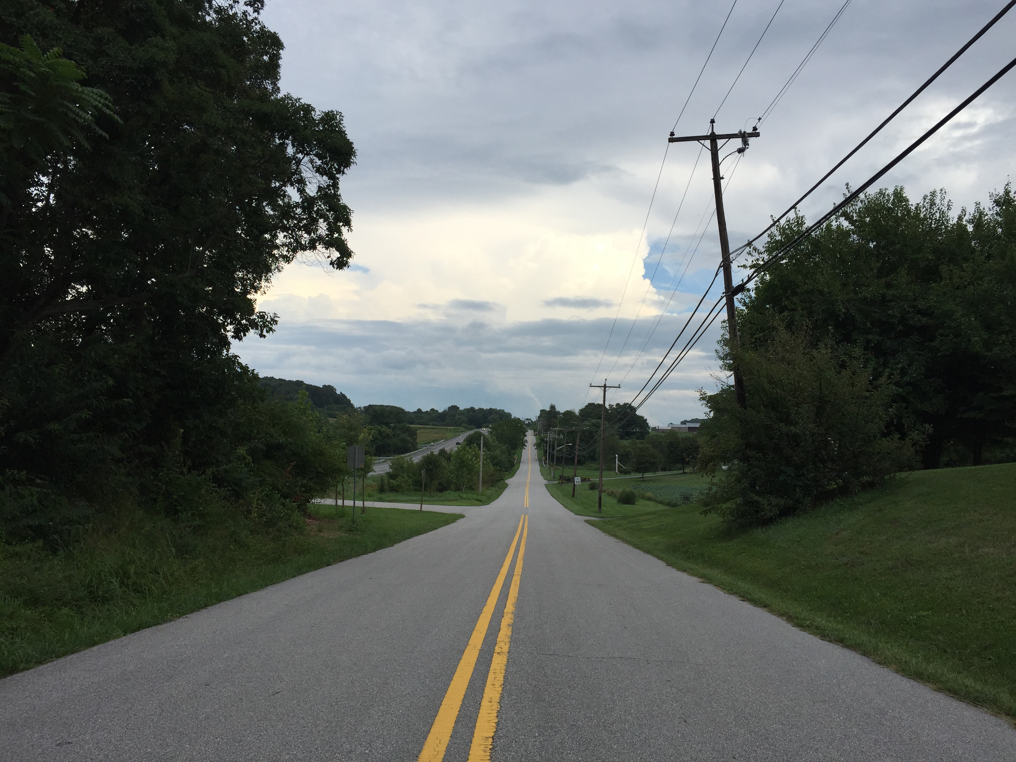 View east along Maryland State Route 850 (Old Liberty Road) between Gray Horse Drive and Skidmore Road between Taylorsville and Winfield in Carroll County, Maryland